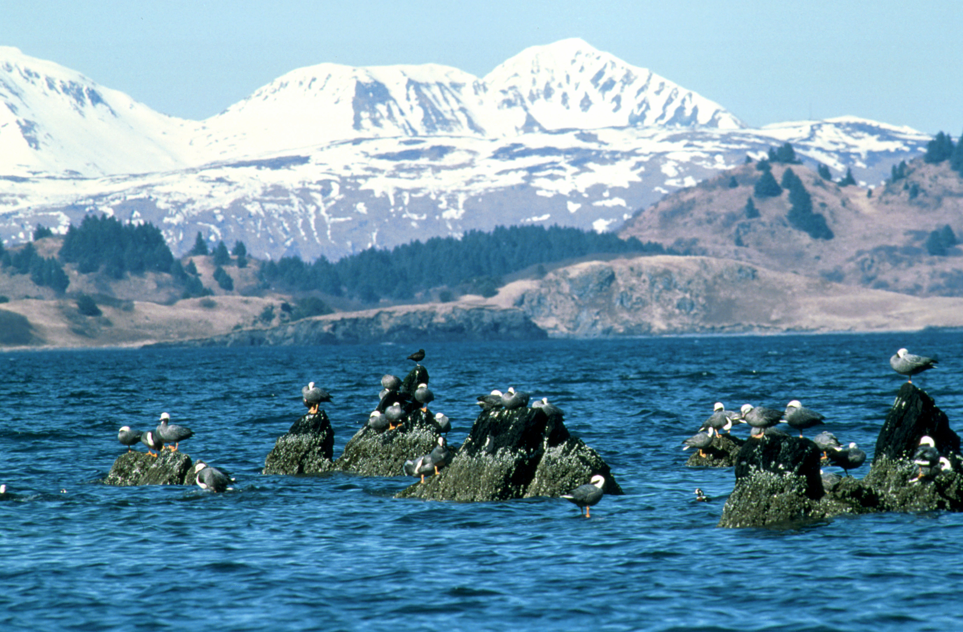 A group of Emperor Geese rest on the peaks of Chiniak Bay rocks in the Kodiak National Wildlife Refuge located in Alaska